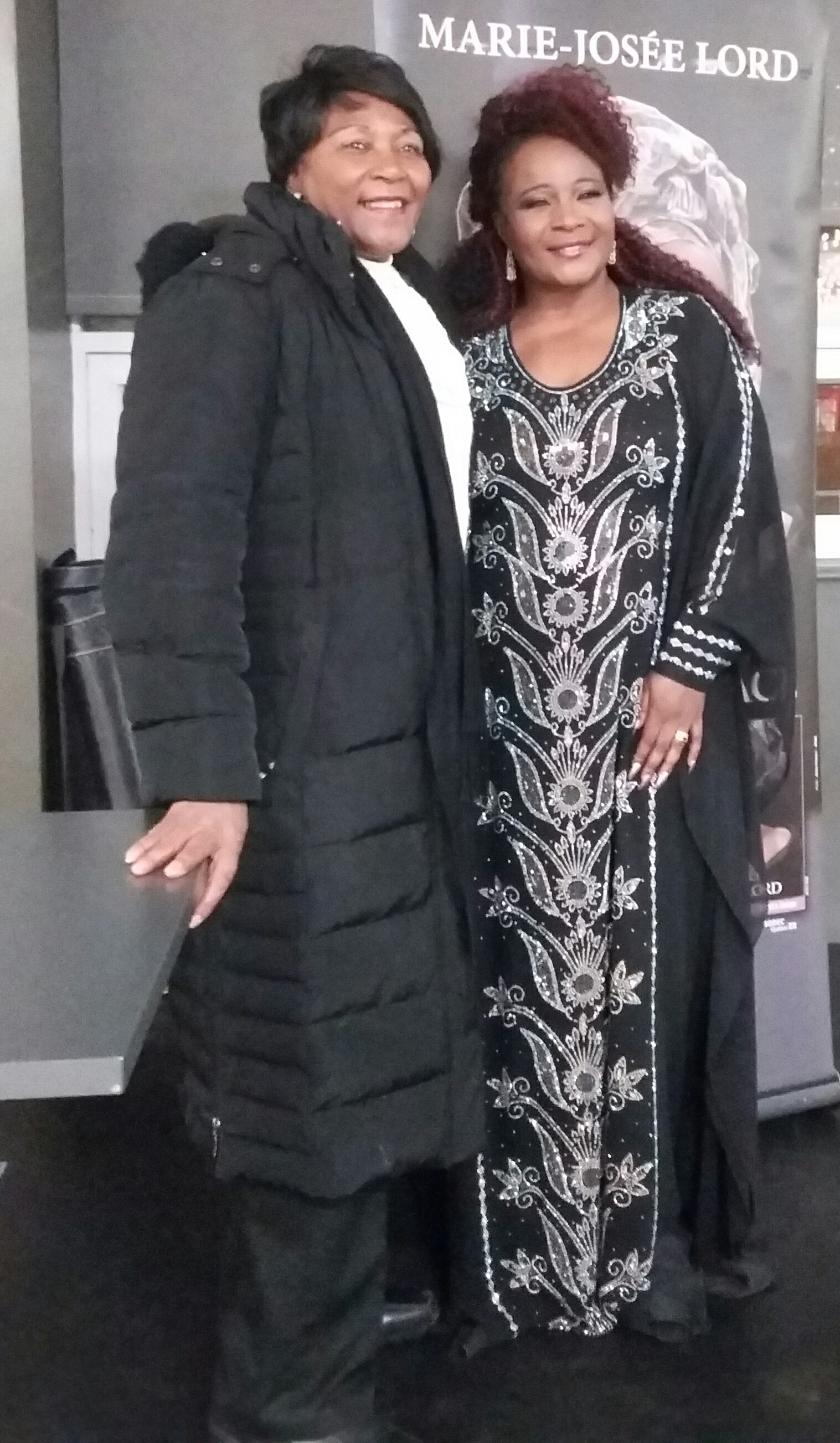 Marie-Josée Lord photographed in Montréal, Quebec, Canada.